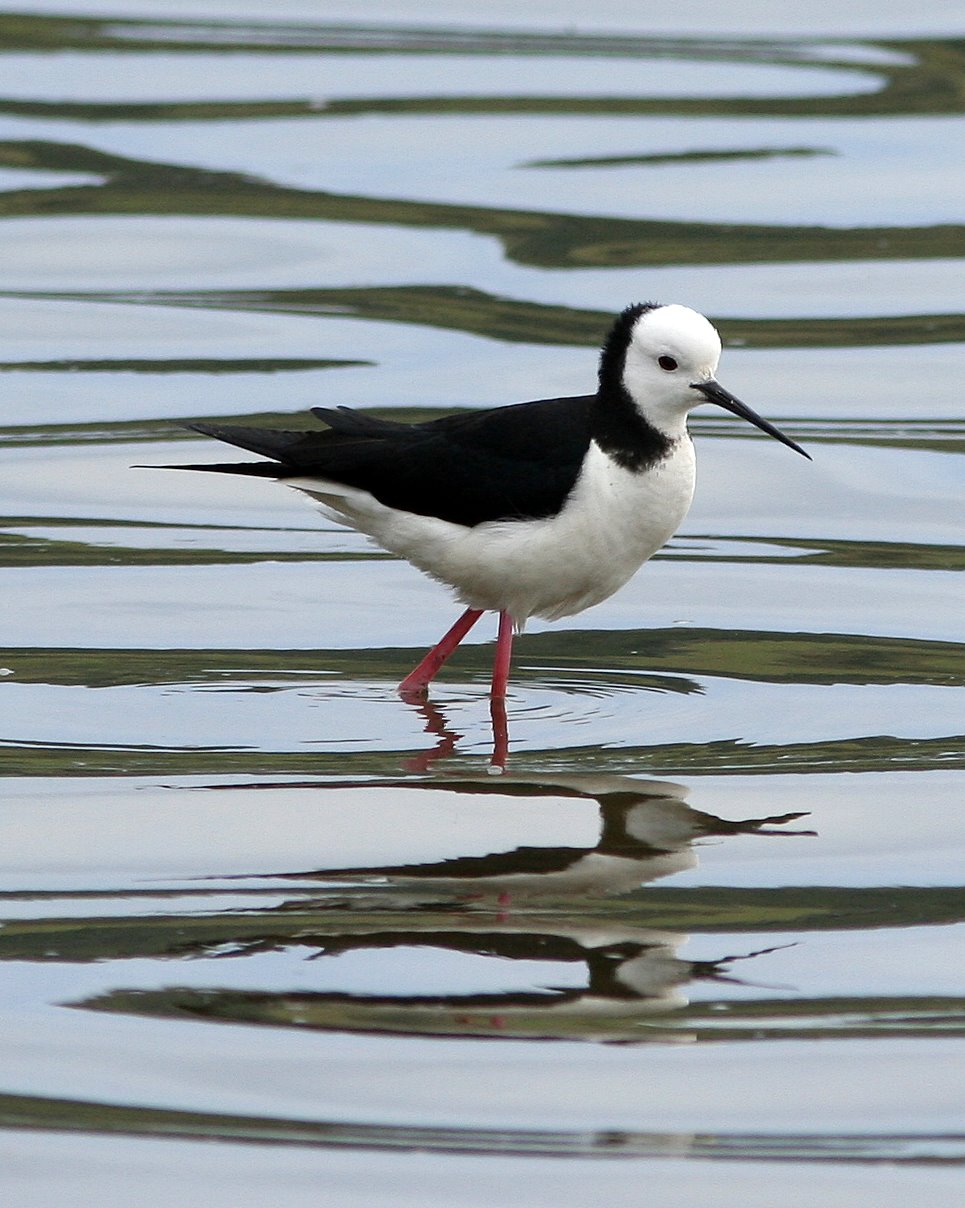 White-headed Stilt Himantopus leucocephalus, wild bird